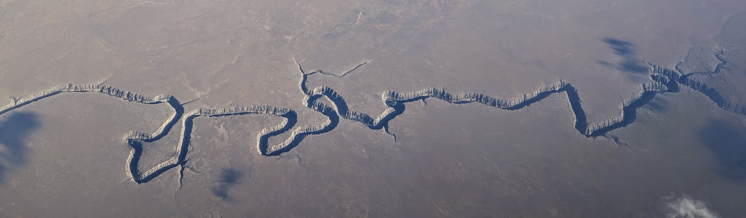 Clear Creek, crossing the Navajo Nation south of Winslow Arizona